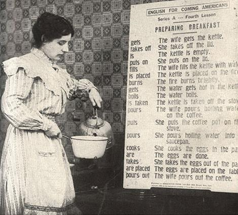 An Italian immigrant makes an American breakfast aided by instructional materials from the YMCA.